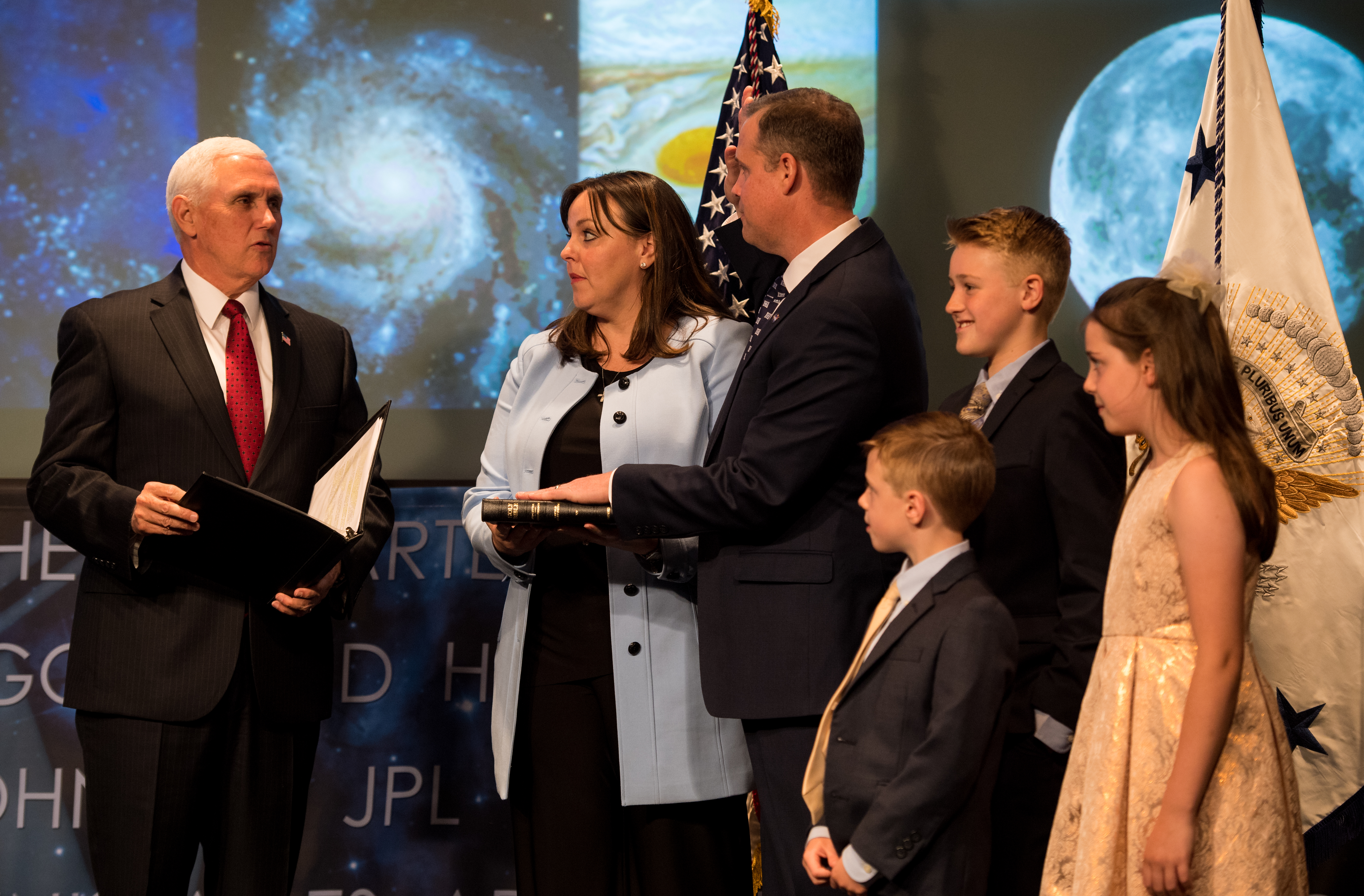 Jim Bridenstine, right, is sworn in as the 13th NASA Administrator by Vice President Mike Pence as Bridenstine's family watch, Monday, April 23, 2018 at NASA Headquarters in Washington. Photo Credit: (NASA/Joel Kowsky)